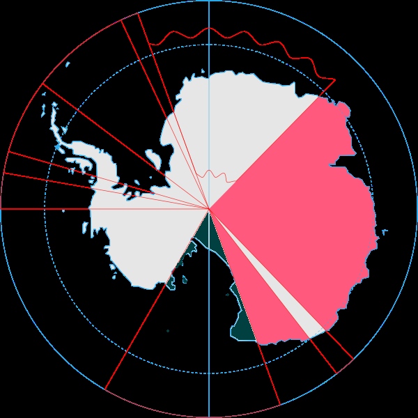 Map showing the territorial claim to Antarctica by New Zealand in turquoise and Australia in pink. Also on the map are is the 60° S Parallel, Antarctic Circle, 0/180 latitude line and (in red) the borders of the claims by other states.